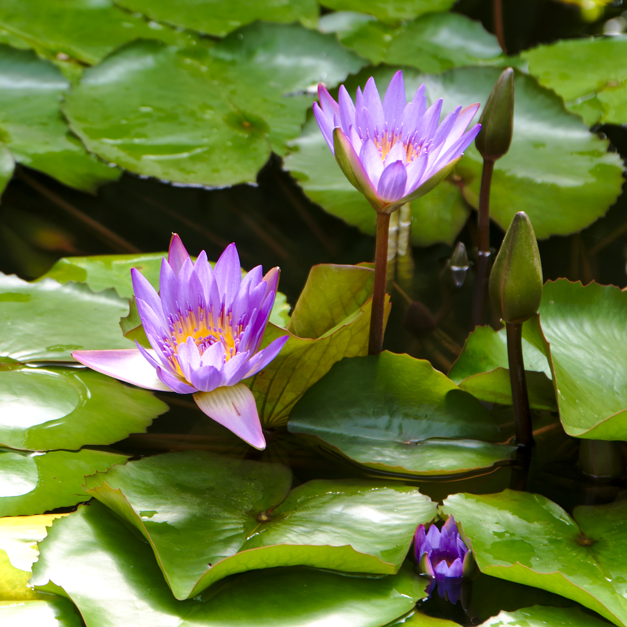 Sacred blue lotus Nymphaea caerulea in botanical garden "Jardin des Martels".